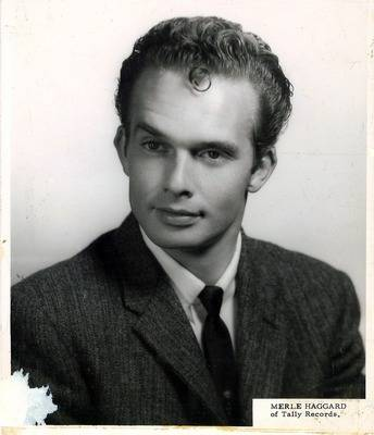 Publicity portrait of Merle Haggard for Tally Records